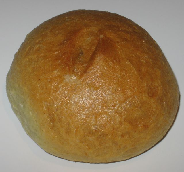 small round wheat bread